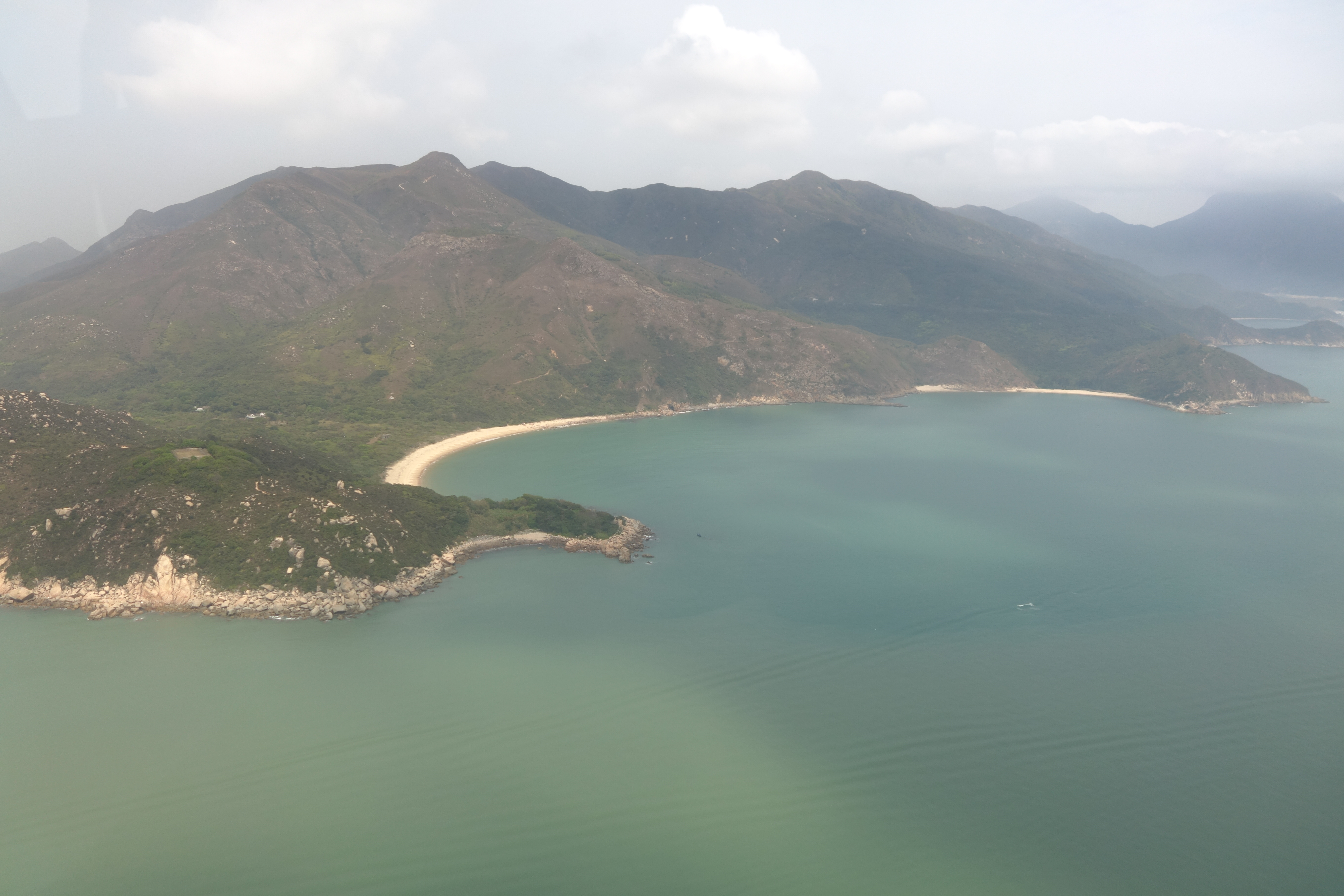 Fan Lau Tung Wan 分流東灣, lit. "East Bay"